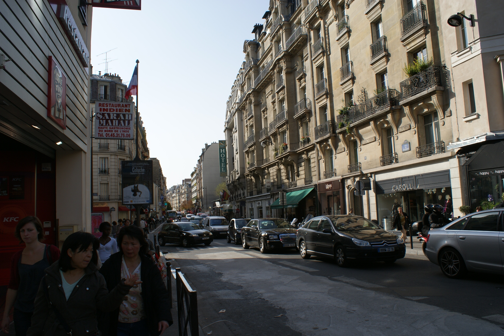 326 Rue de Vaugirard in Convention (15th arrondissement)